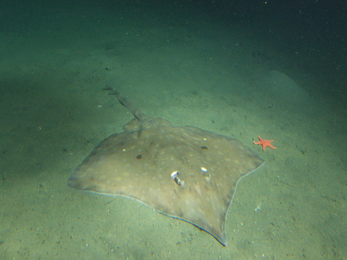 Big skate(Raja rhina) observed off Pt Pinos during a sanctuary seafloor monitoring survey using the Delta submersible.